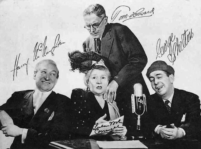 Postcard photo of the radio cast from the quiz show It Pays To Be Ignorant. At front from left-Harry McNaughton, Lulu McConnell and George Shelton. Tom Howard, the MC, is standing at back.